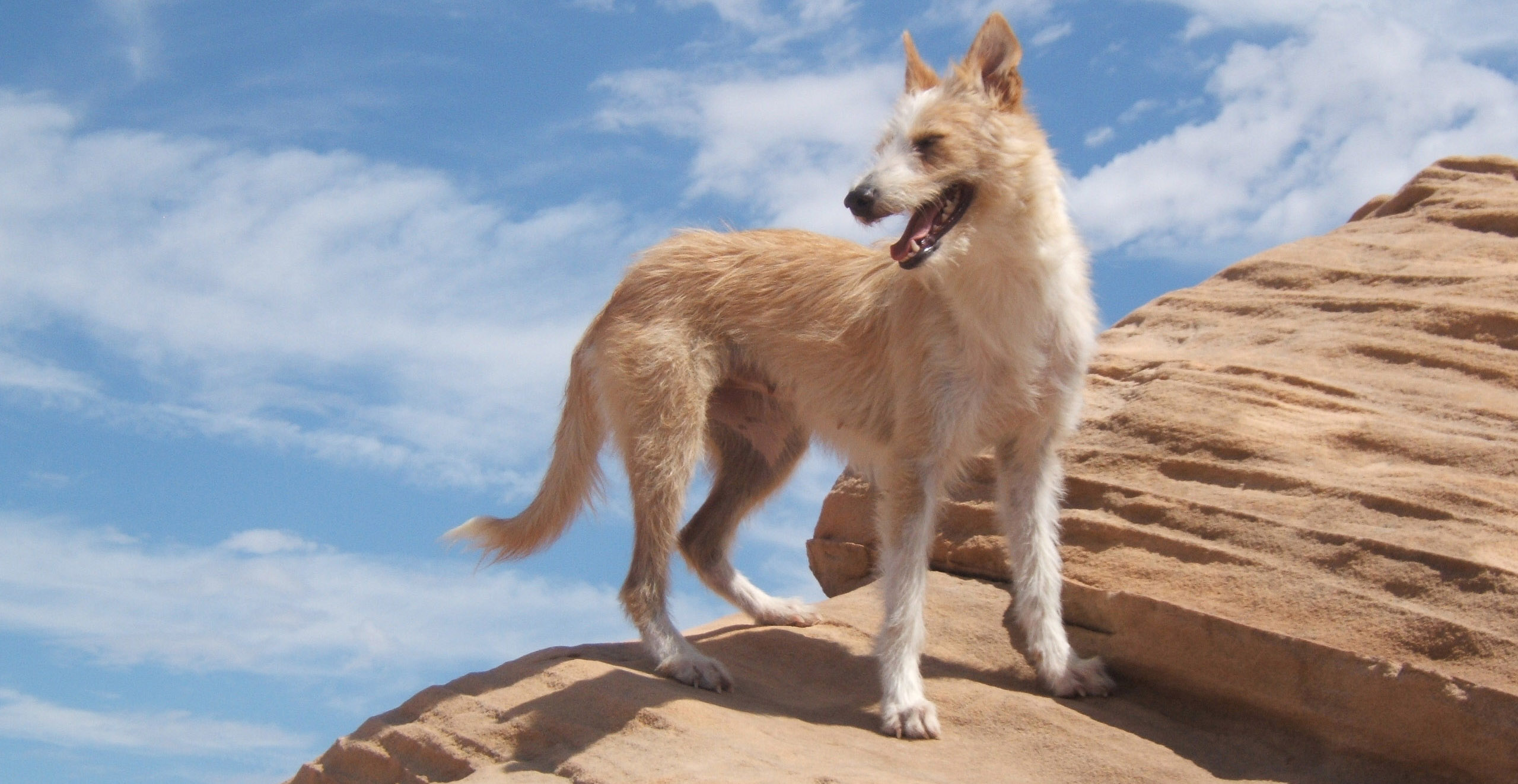 Wirehaired Portuguese Podengo Medio at Vermilion Cliffs- Lake Powell, Arizona